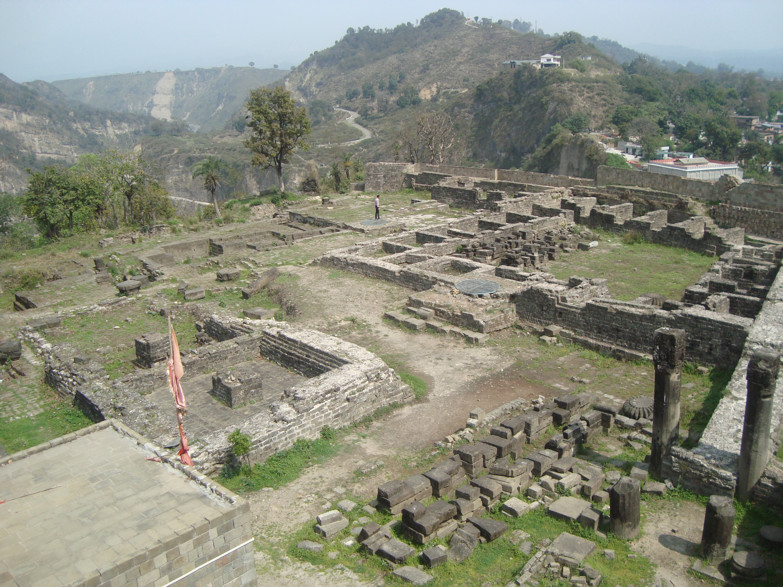 Compound of wells, Kangra Fort